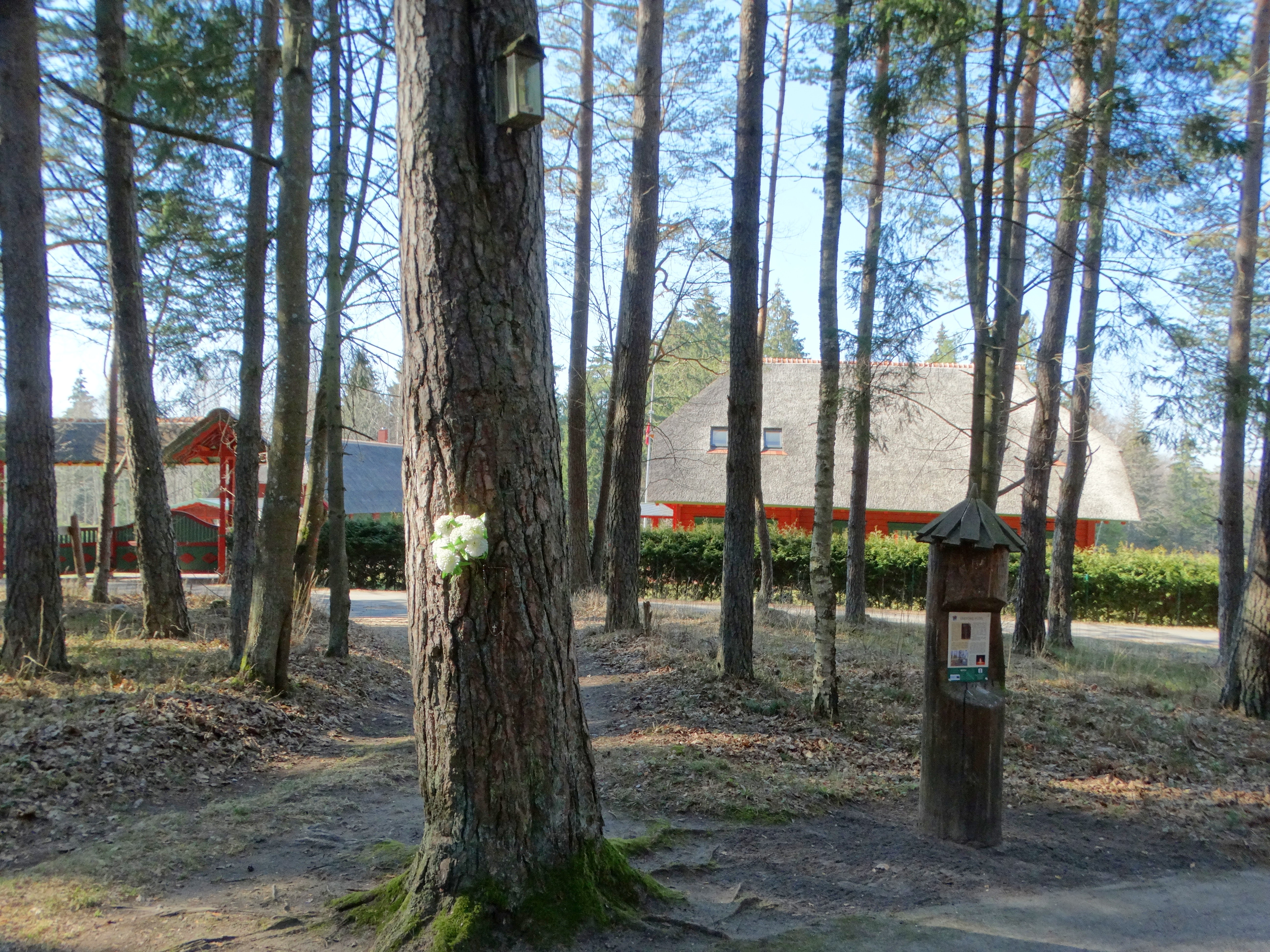 Pine tree, Dirvonai, Šiauliai district, Lithuania